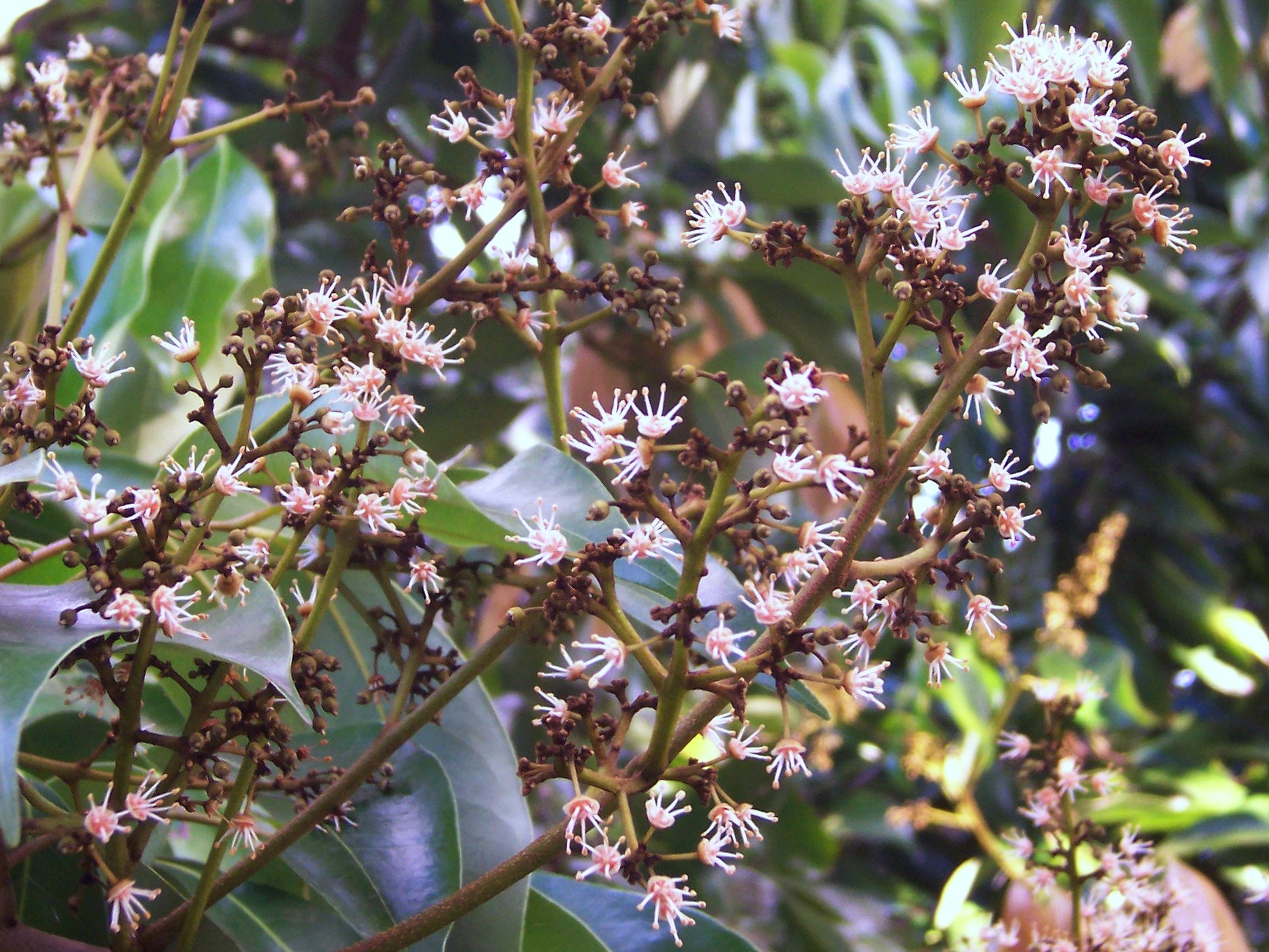 flowers of Litchi chinensis (picture taken on Réunion island)